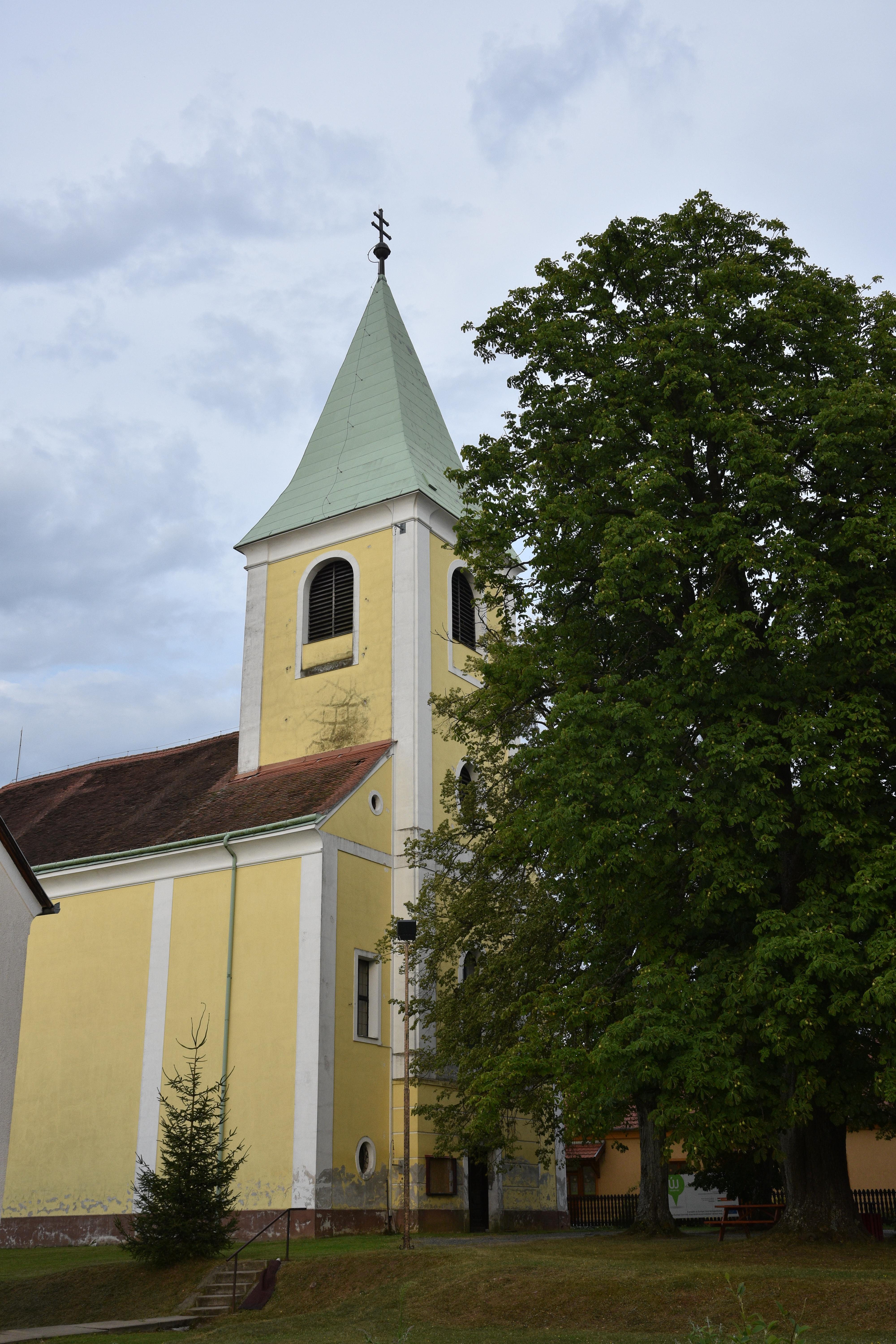 Church of St. Stephen Harding (Apátistvánfalva)